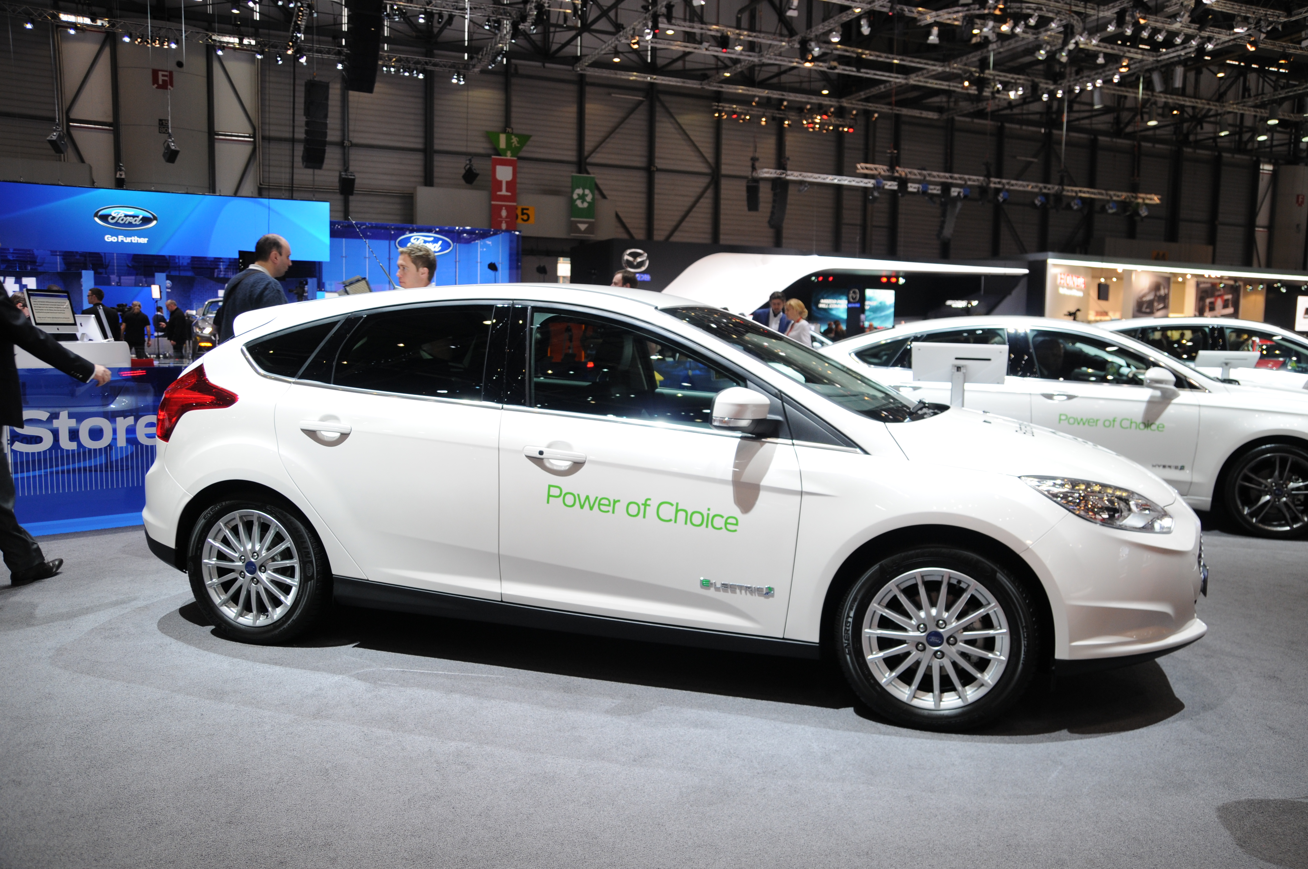 Ford Focus Electric at Geneva Motor Show 2014 (photo taken on the first press day)